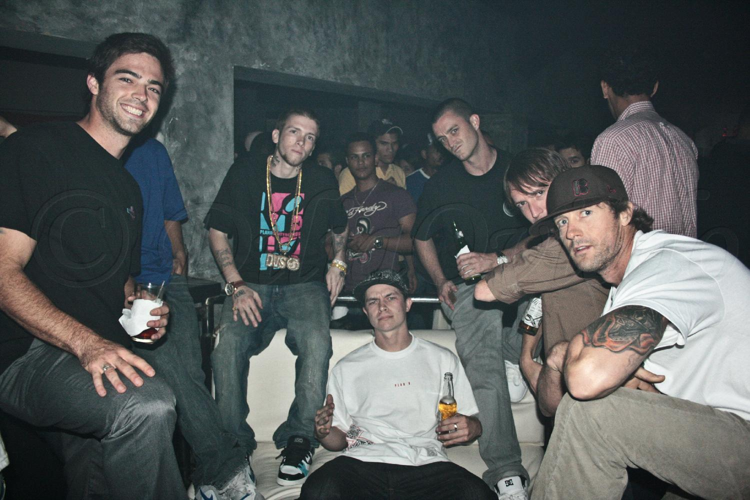 Sean Hayes, Jereme Rogers, Ryan Gallant, Colin Mckay and Danny Way